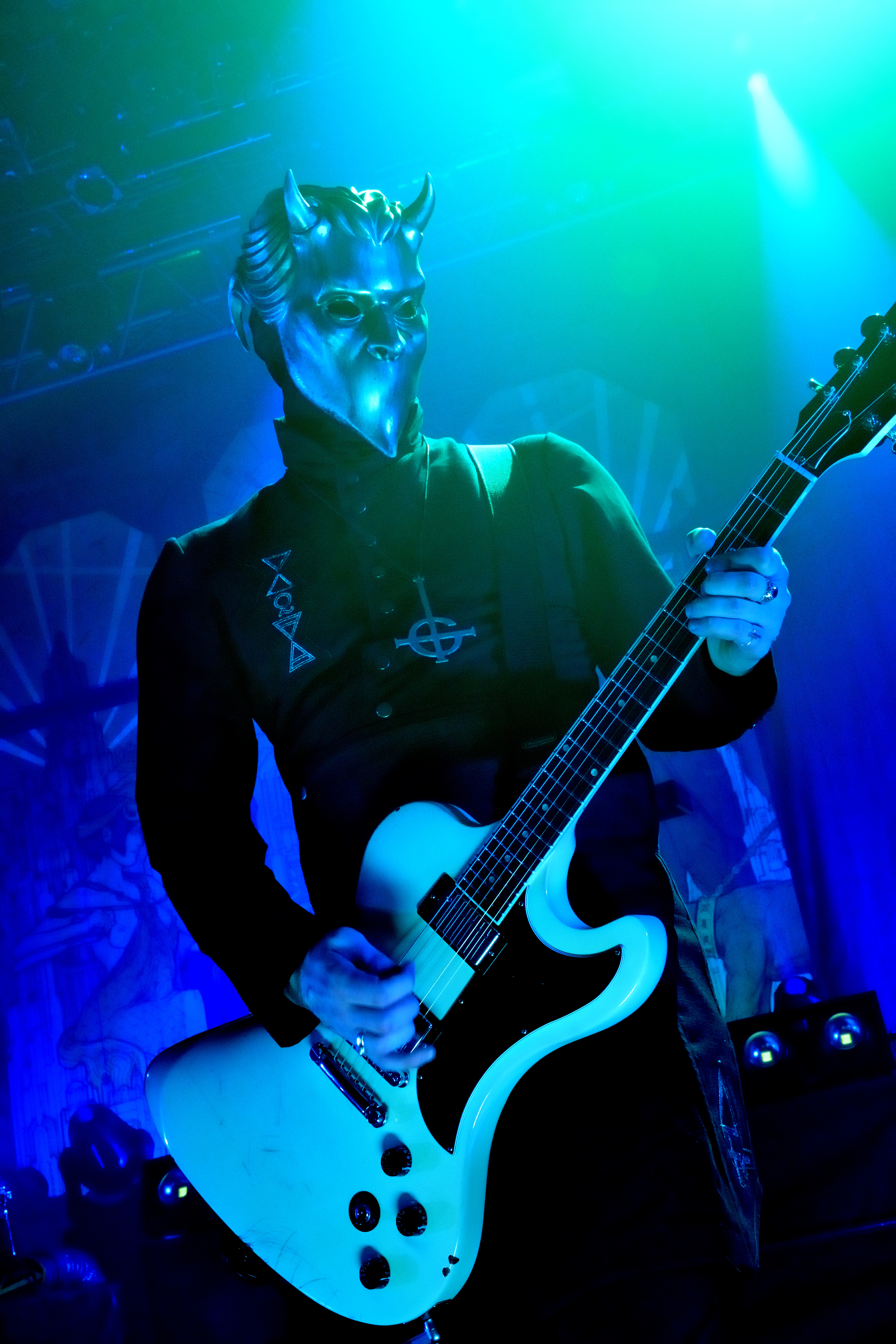 Ghost performing at the Laiterie de Strasbourg in 2016.